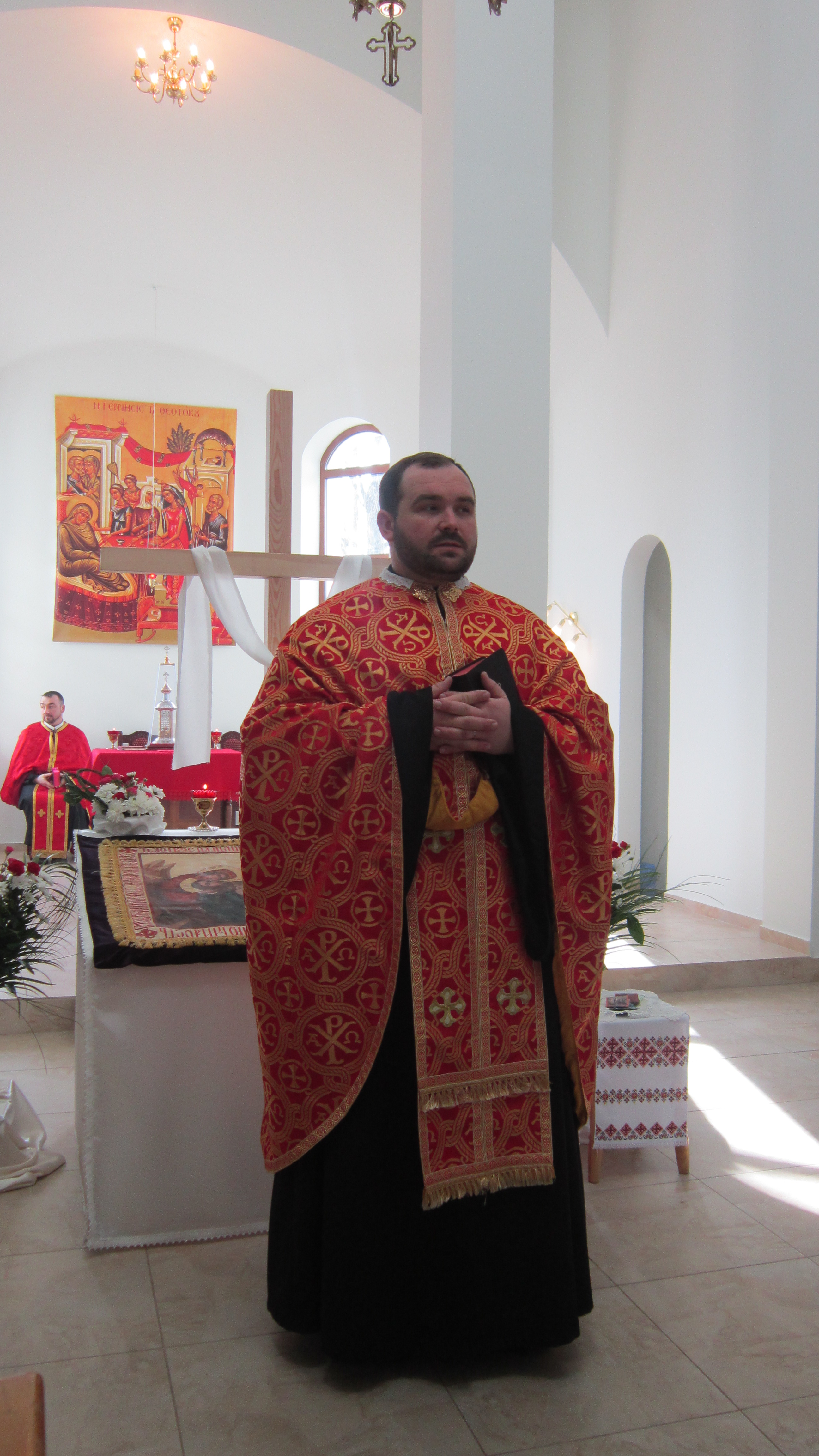 настоятель парафії (з 2013 року)